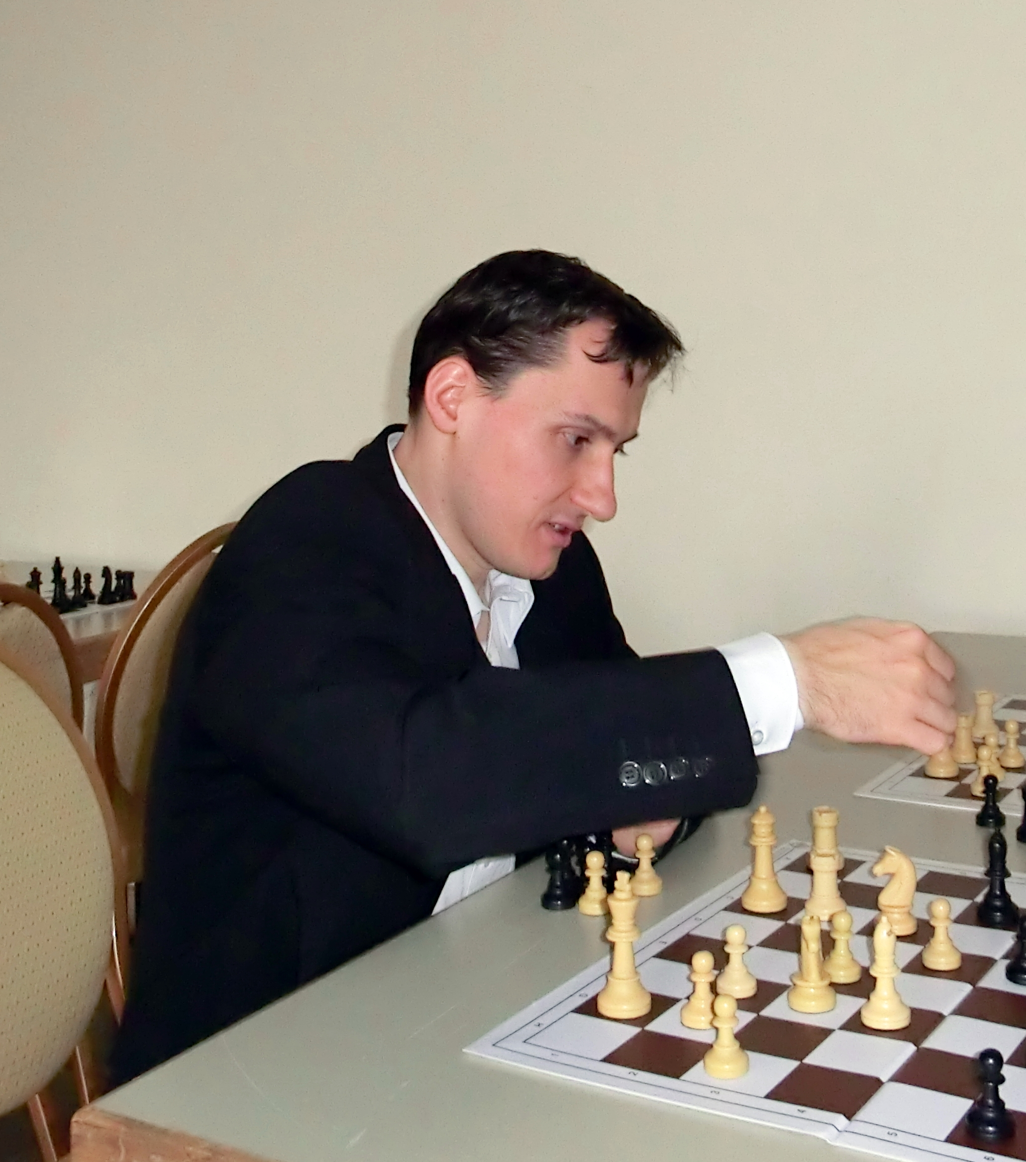 Ferenc Berkes, chess grandmaster from Hungary